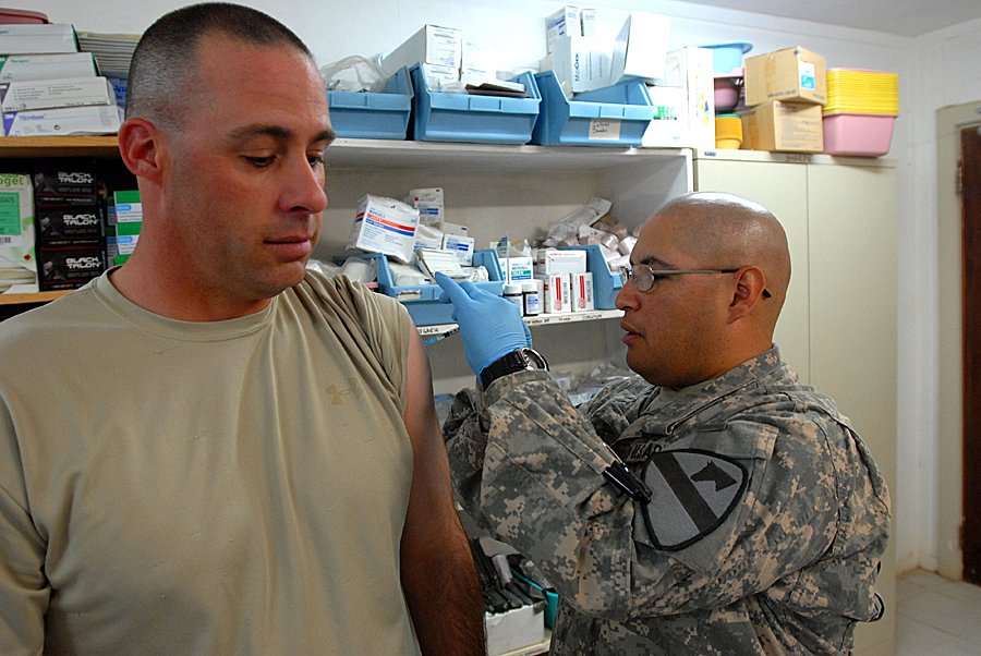 BAGHDAD - Spc. Armando Reyes (left), a health care specialist from San Antonio, gives a flu shot to Staff Sgt. John Buchanan, of Phoenix City, Ala., at the Battalion Aid Station, on Camp Liberty, Oct. 1. "This flu shot is good for one year," said Reyes, assigned to Headquarters Support Company, Division Special Troops Battalion, 1st Cavalry Division. "The flu shot supports better health for all the companies of DSTB. We live in close quarters, it's easy for the flu to be passed on."